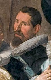 Portrait of Lucas van Tetterode in The officers and non-commissioned officers of the Saint George Civic guard in Haarlem in 1639, detail